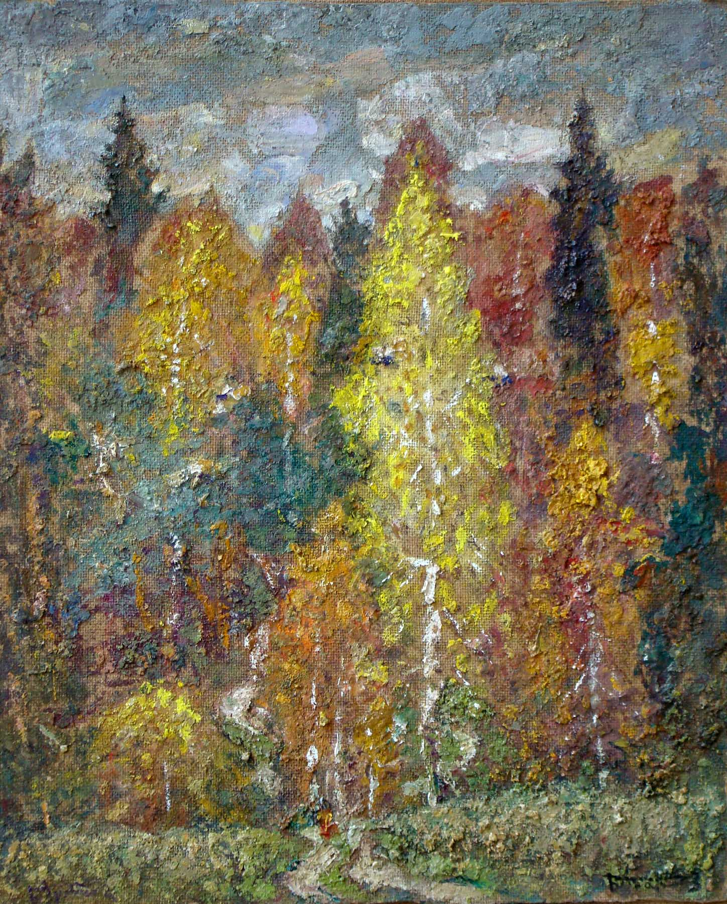 Boris Arakcheev "Riot of autumn", 1997, oil on cardboard, 50x40 cm